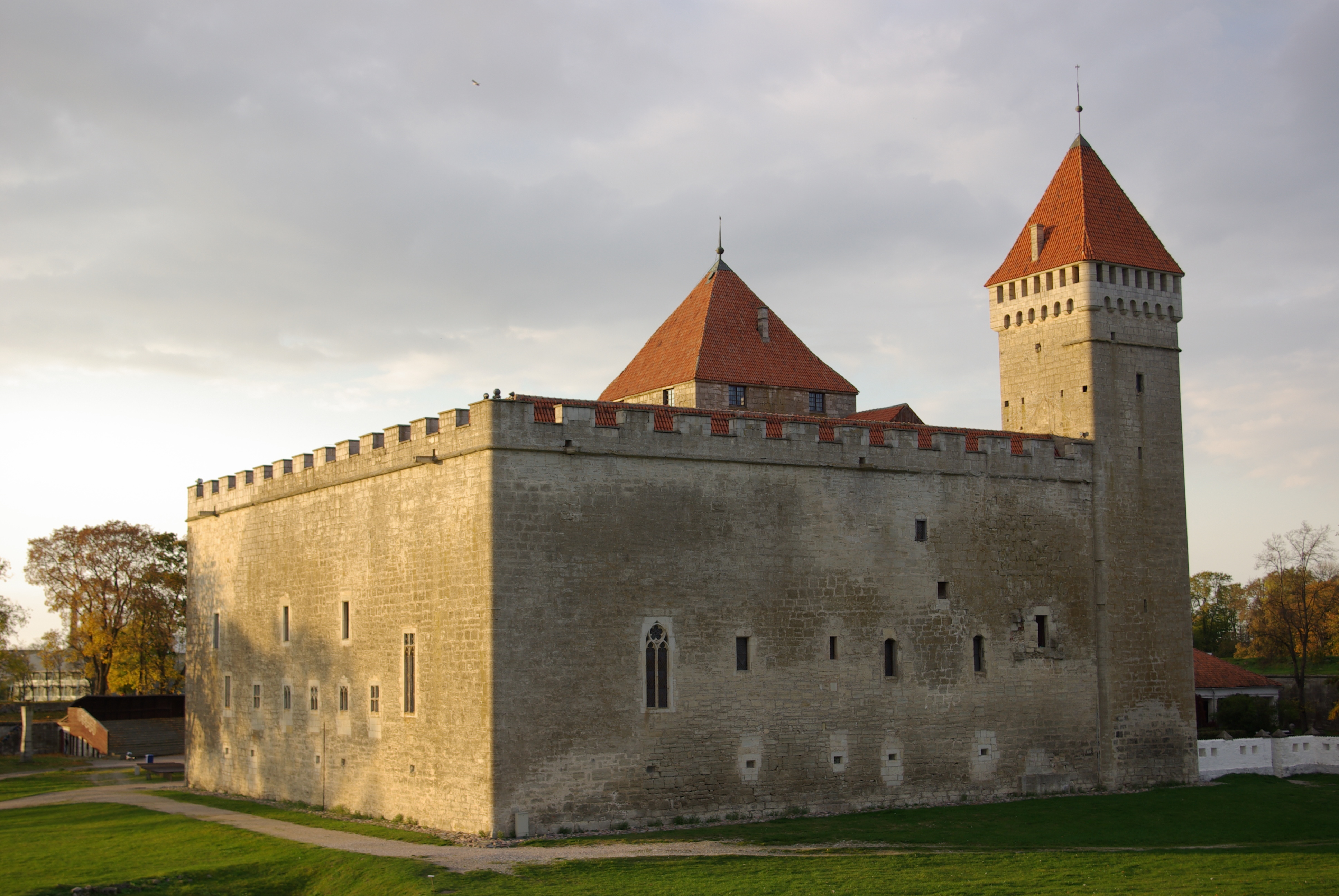 Kuressaare Castle in warm evening hours in Kuressaare Saaremaa.